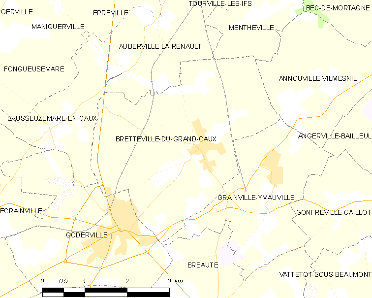 Map of French municipality Bretteville-du-Grand-Caux